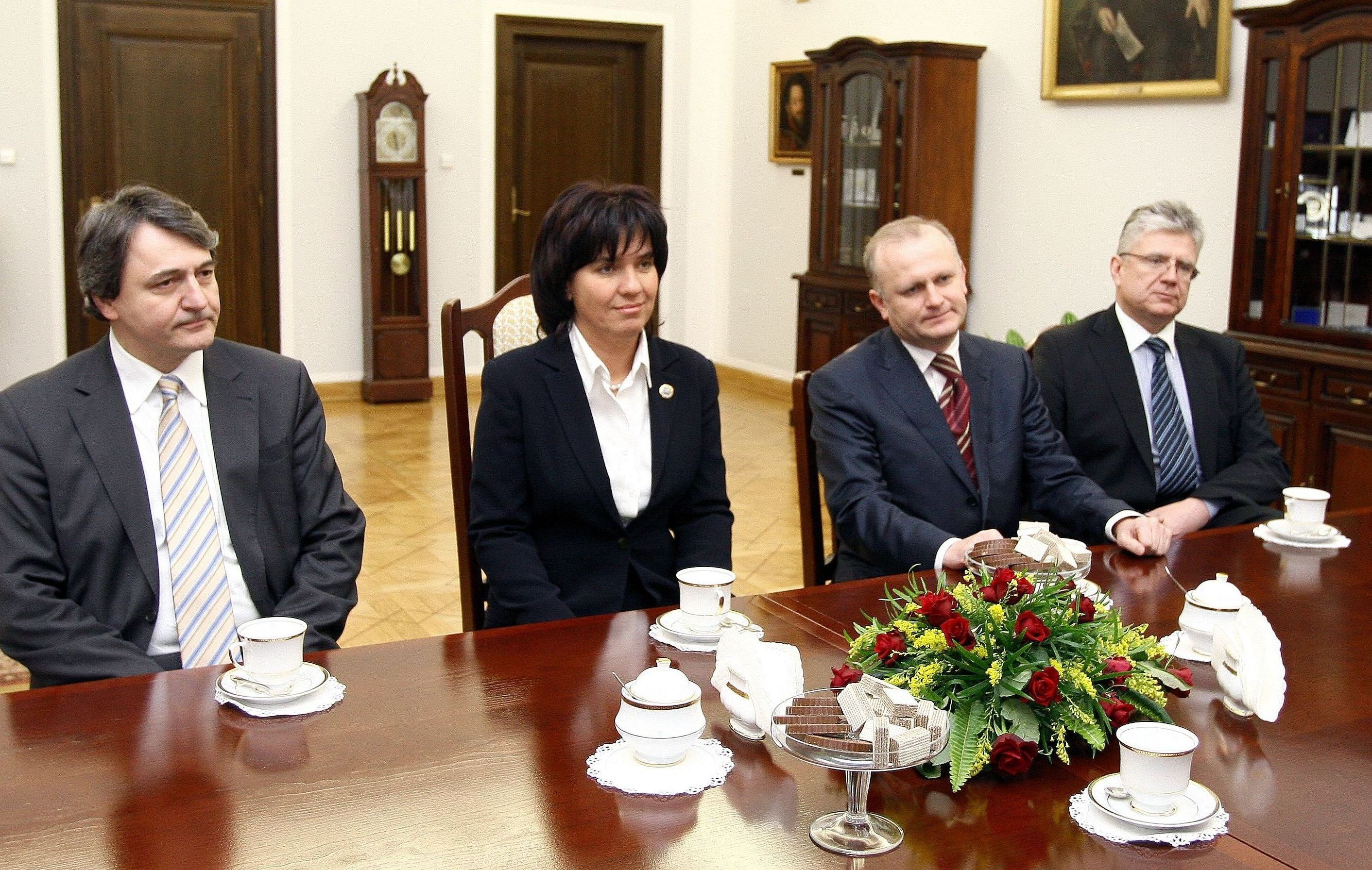 Members of the Presidium of the Polish Bar Council during a meeting with Marshal of the Senate Bogdan Borusewicz. Pictured from the left: Jerzy Nauman, Joanna Agacka-Indecka, Andrzej Michałowski and Krzysztof Boszko.